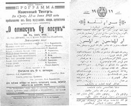 Programm of "If not that one, then this one" comedy of Uzeyir Hajibayov in State Theatre